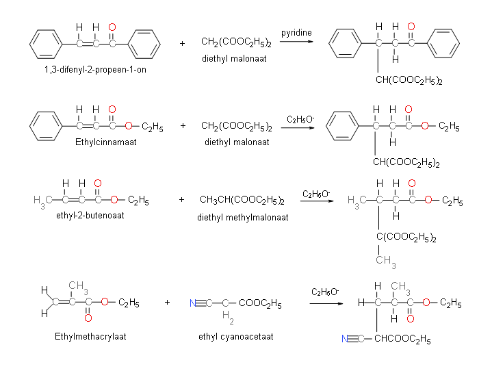 Some examples of Michael addition reactions